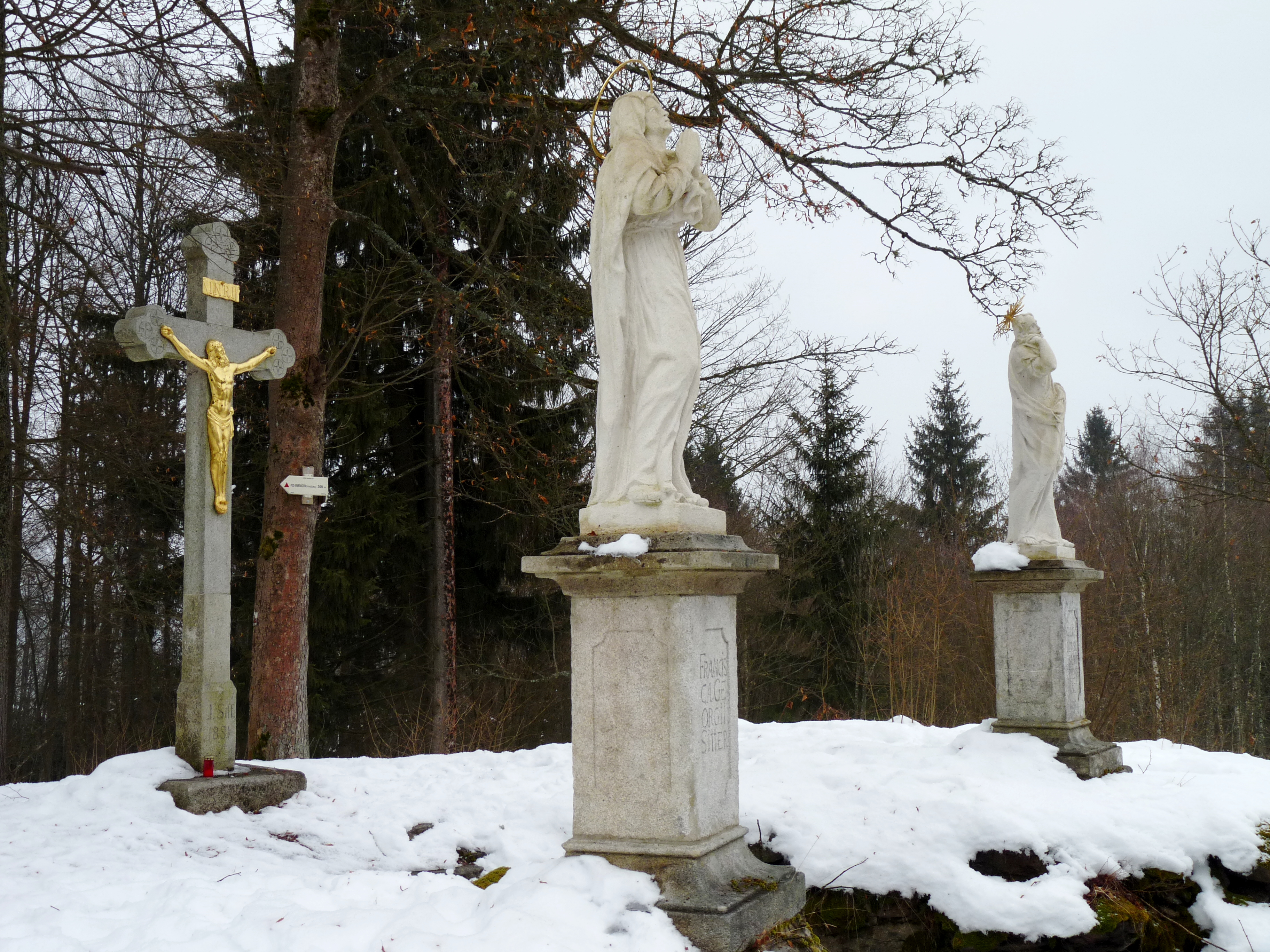 Stations of the Cross in the town of Volary, Prachatice District, South Bohemian Region, Czech Republic, cross with statues symbolizing scene XII.